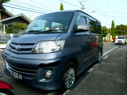 The Campus Car Stt Migas, Km8